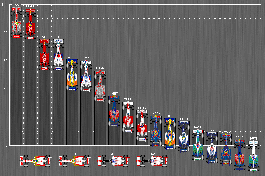 chart of final standings of 2008 Formula One season